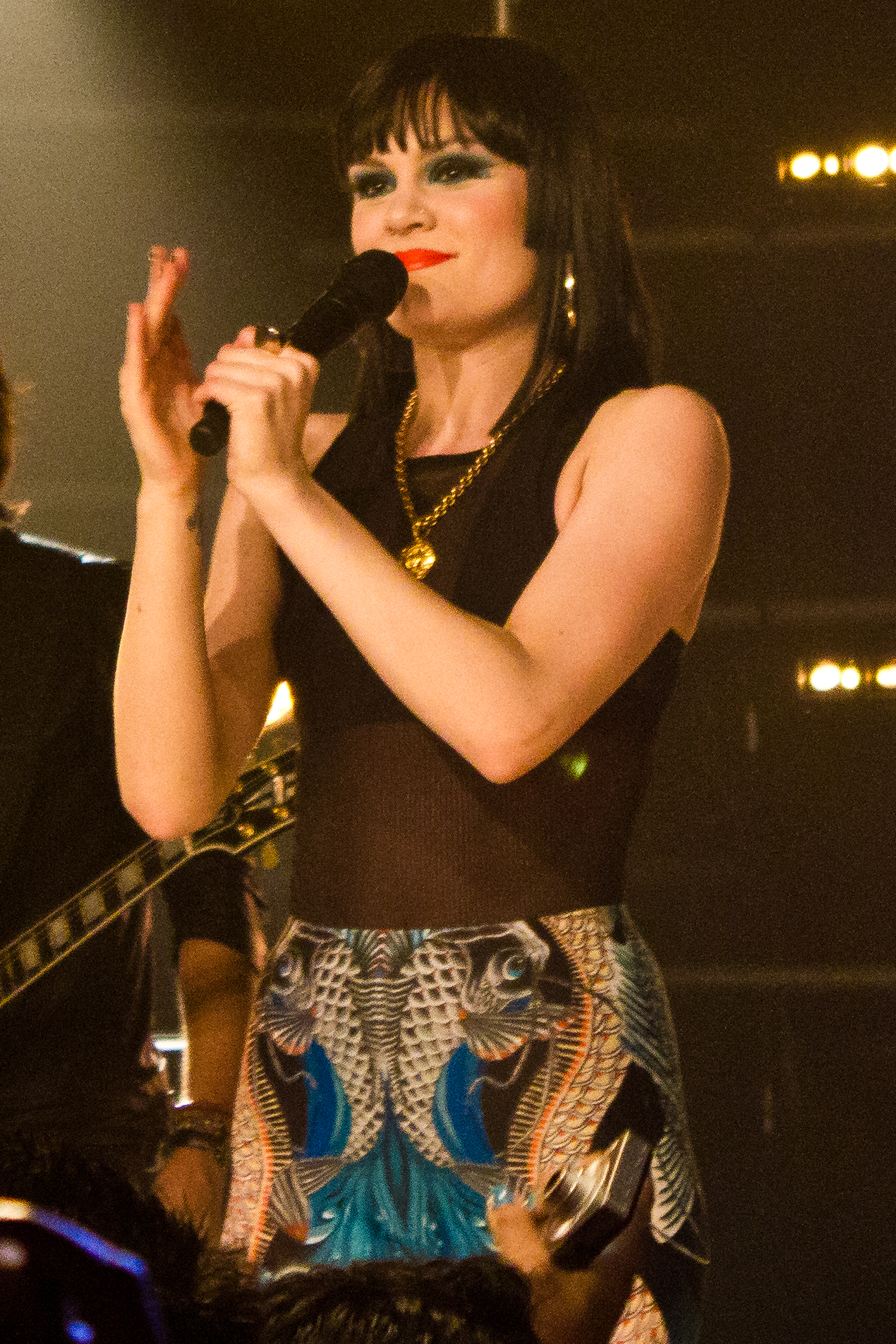 Jessie J in NYC.